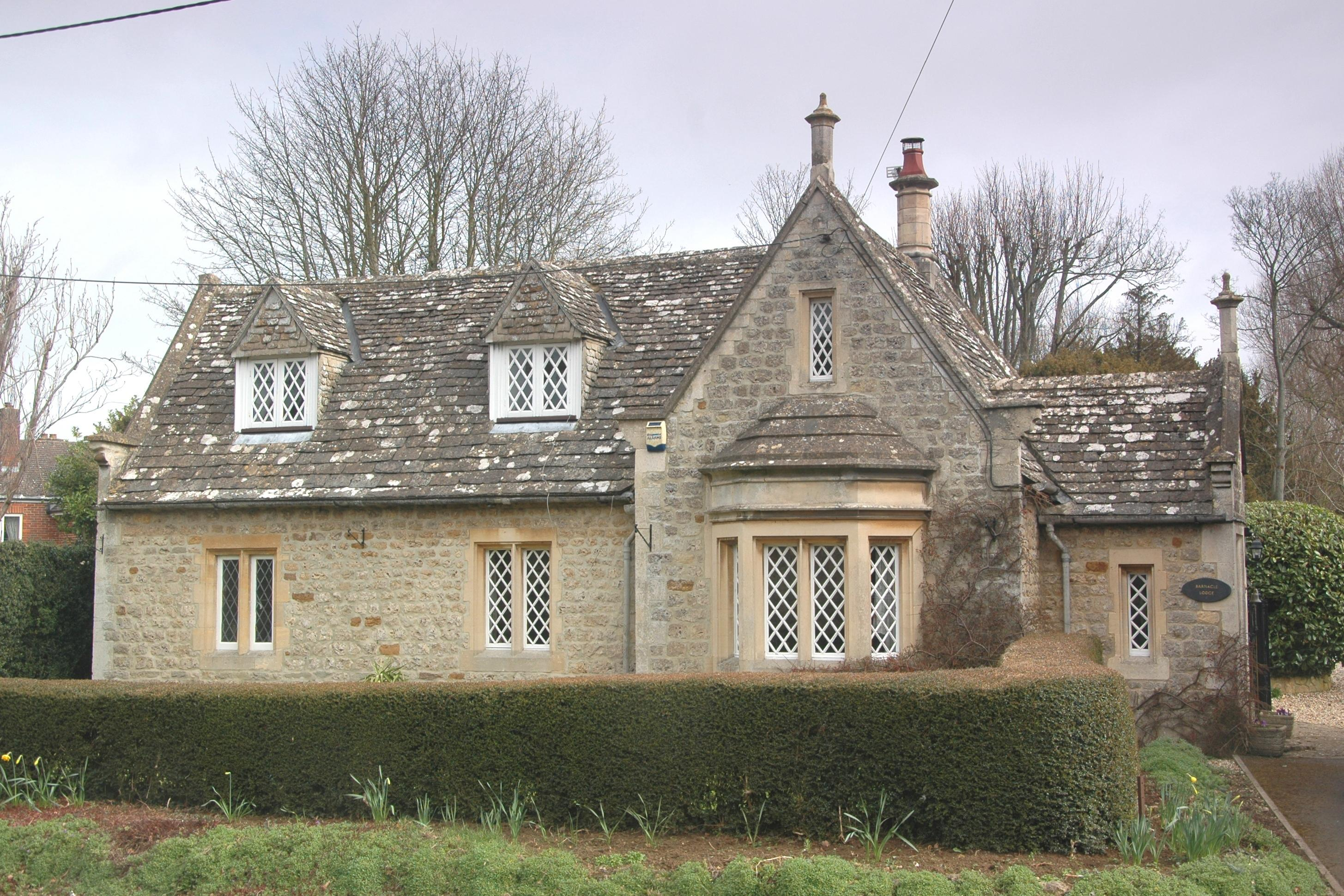 Barnacle Lodge, Faringdon Road, Shrivenham: one of the lodges of Beckett Hall